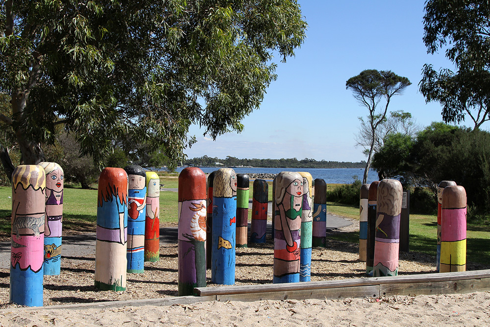 Figures painted by local school children at Lions Park on Lake Rd alongside Lake Victoria, Loch Sport, Victoria, Australia.